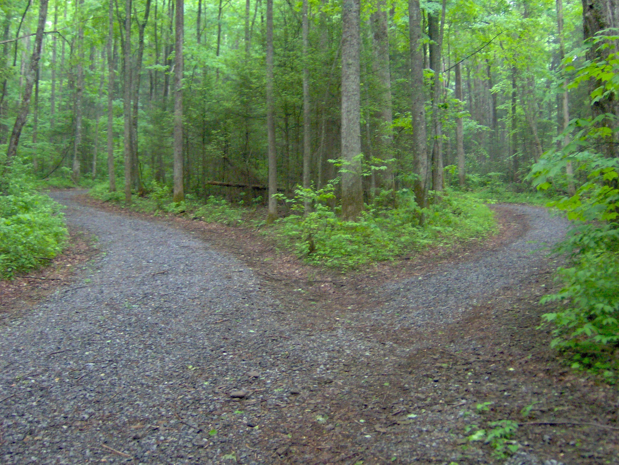 Cul-de-sac at the end of the gravel road section of the Snake Den Ridge Trail in the Great Smoky Mountains of Cocke County, Tennessee. Past this turnaround, the trail becomes a rugged backcountry trail.